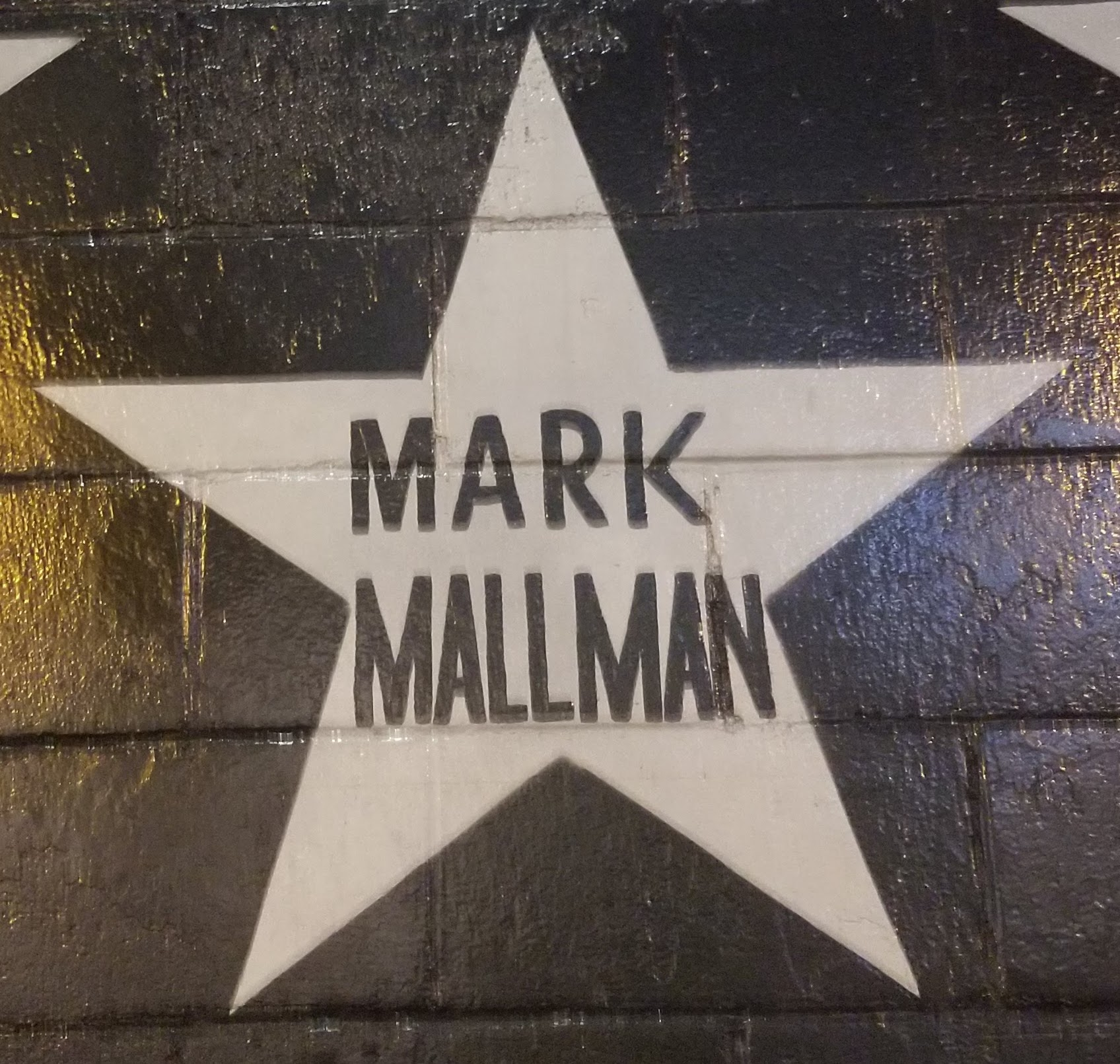 Star representing musician Mark Mallman on the outside mural of the Minneapolis nightclub First Avenue